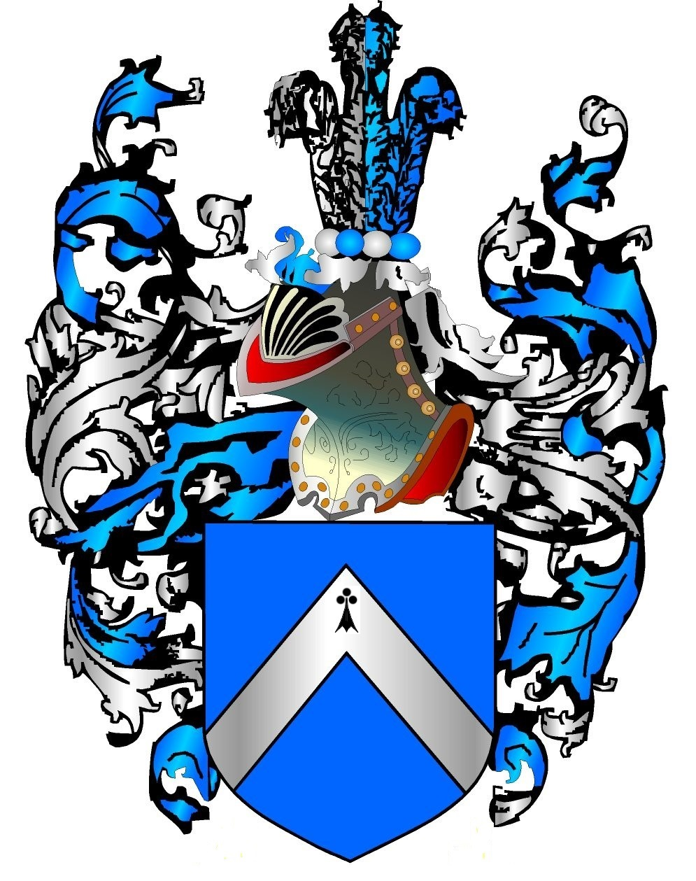 Ho(u)ltreman